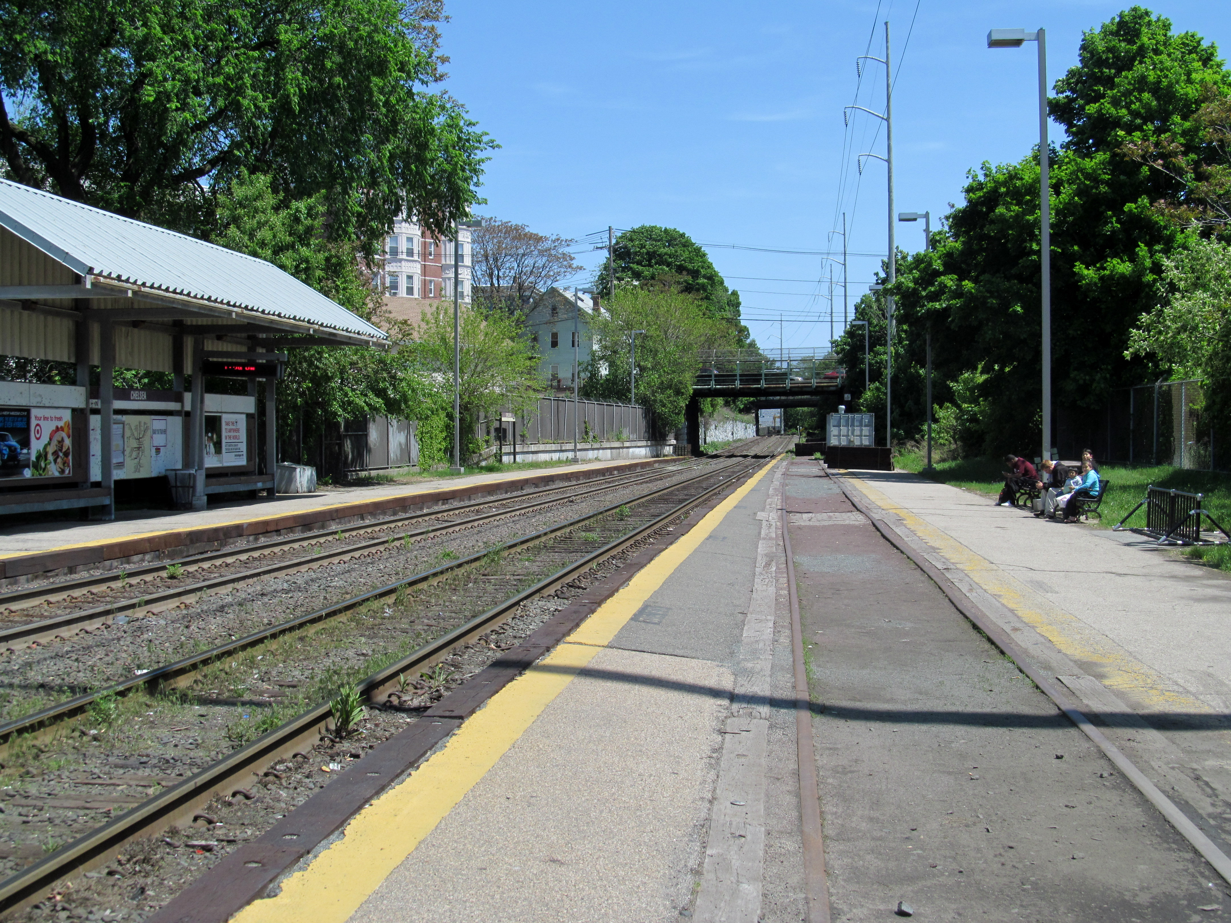 Chelsea station facing outbound in May 2012. The rails embedded in the platform are the former Grand Junction Railroad, which continued to East Boston.